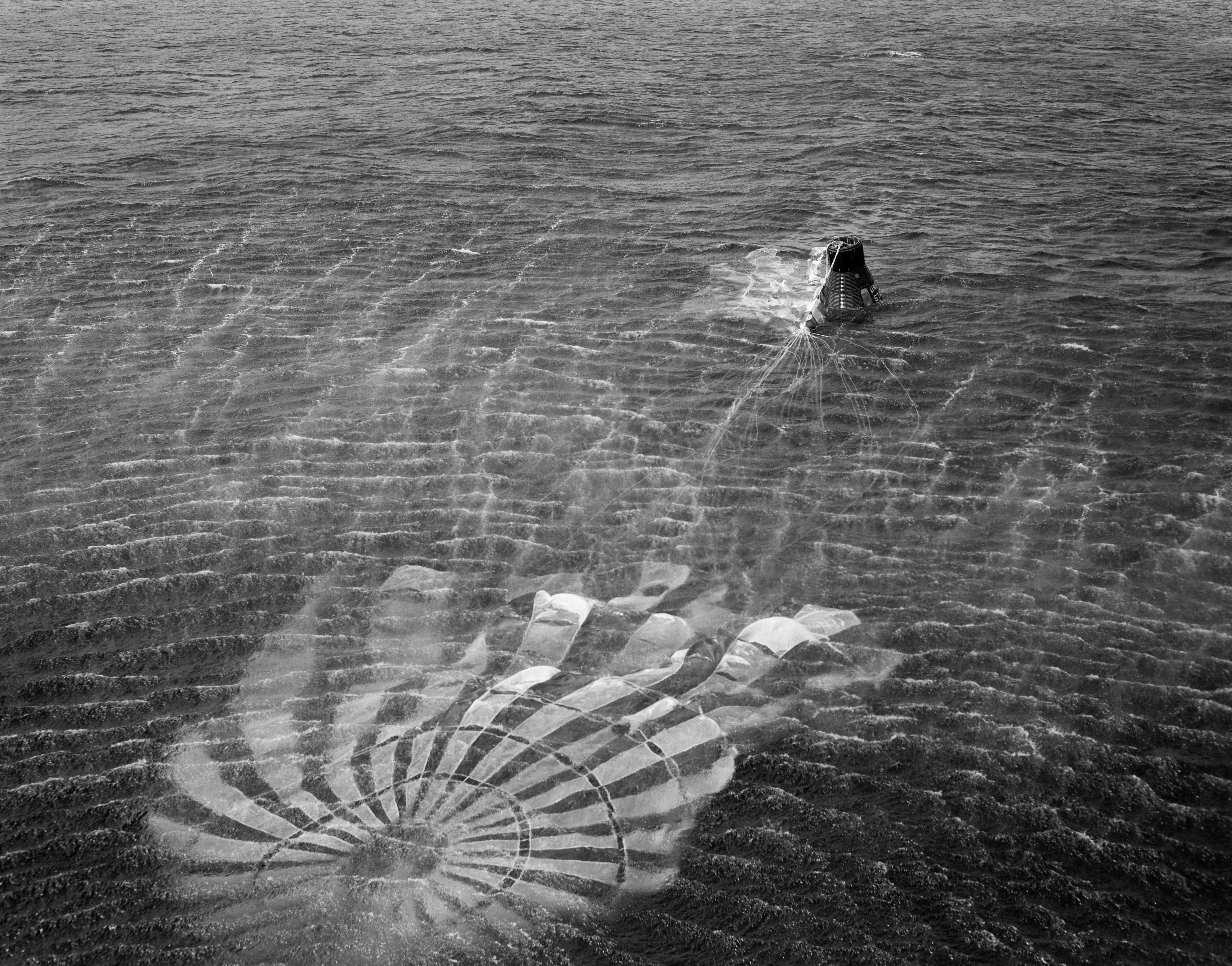 View of the recovery of the Little Joe-5A spacecraft which lifted off on March 18, 1961 from Wallops Island. The photo was taken from the recovery helicopter and shows the craft's parachute still attached and floating in the water next to the capsule. Little Joe-5A was a suborbital flight to test the Mercury capsule. The escape rocket motor fired prematurely and prior to capsule release.